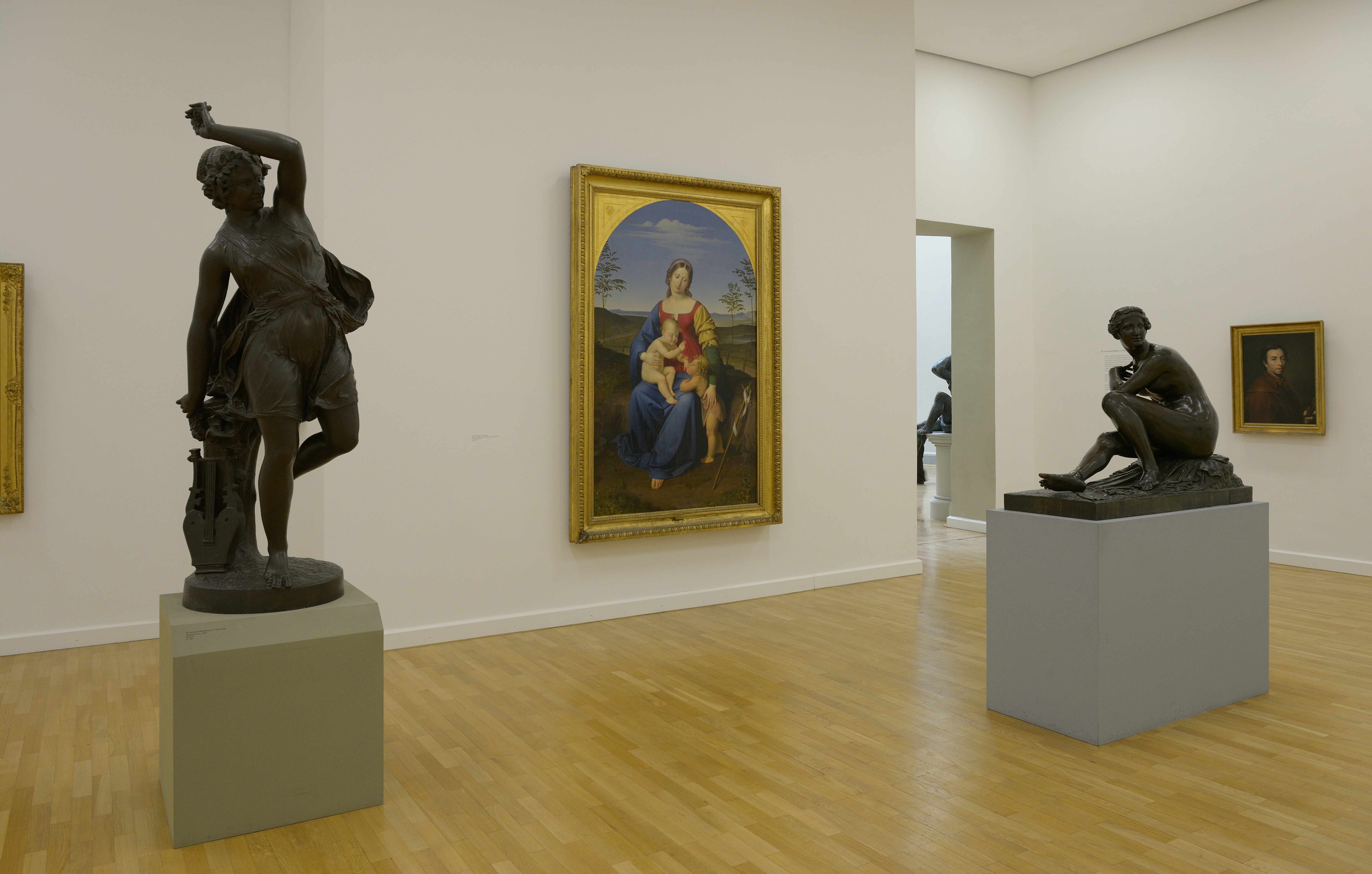 Terpsichore abd Venus by J.D. Mahlknecht the Tyrolean Museum Ferdinandeum